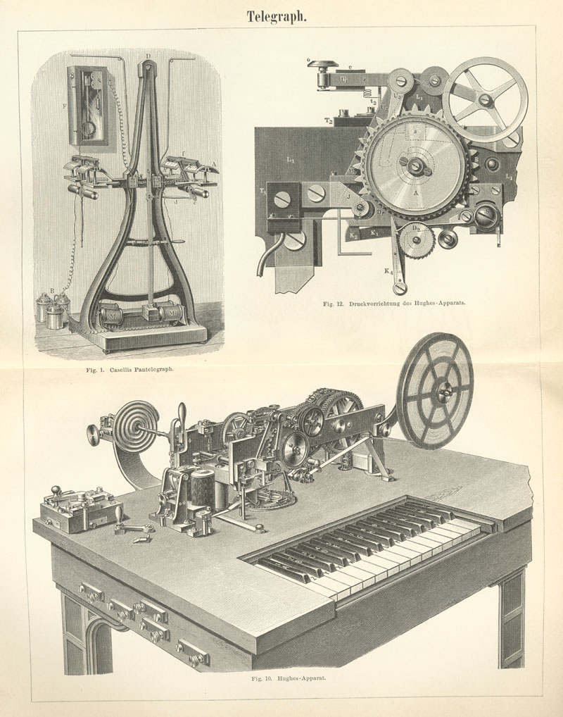 telegraph